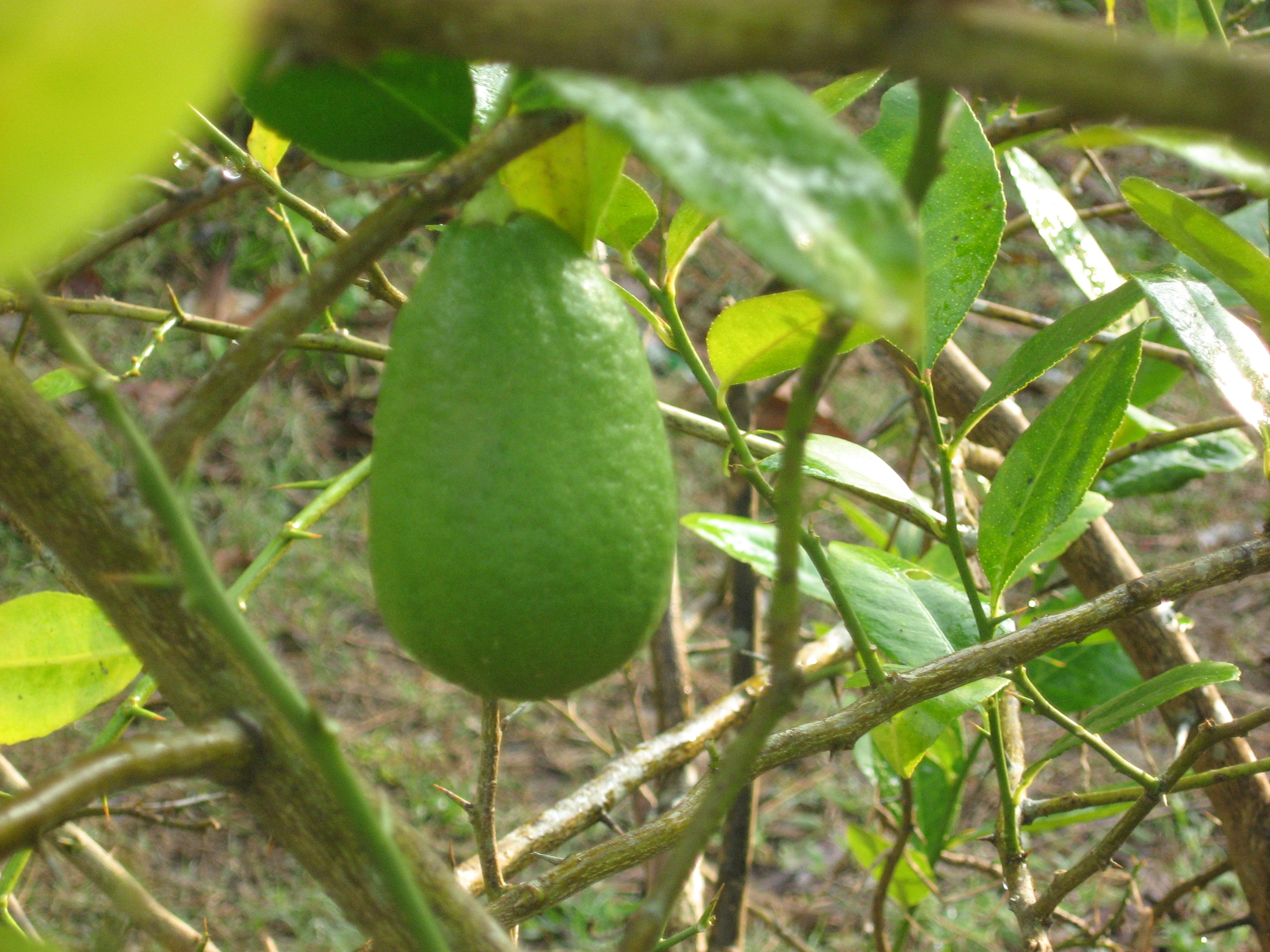 fruit